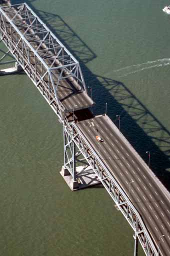 photograph of the San Francisco-Oakland Bay Bridge's collapsed section after the Loma Prieta earthquake